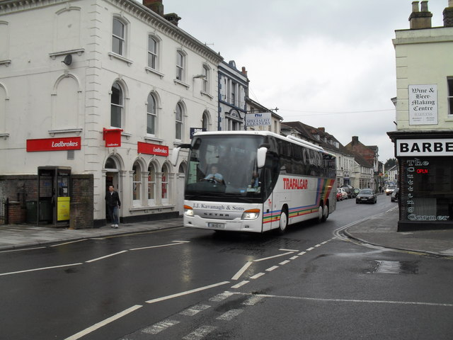 Coach in Fisherton Street, Data from Geograph: Description: SU1430 :: Coach in Fisherton Street, near to Salisbury, Wiltshire, Great Britain ICBM: 51.069339755991, -1.7998551703916 Location: (about 1 km from) near to Salisbury, Wiltshire, Great Britain.